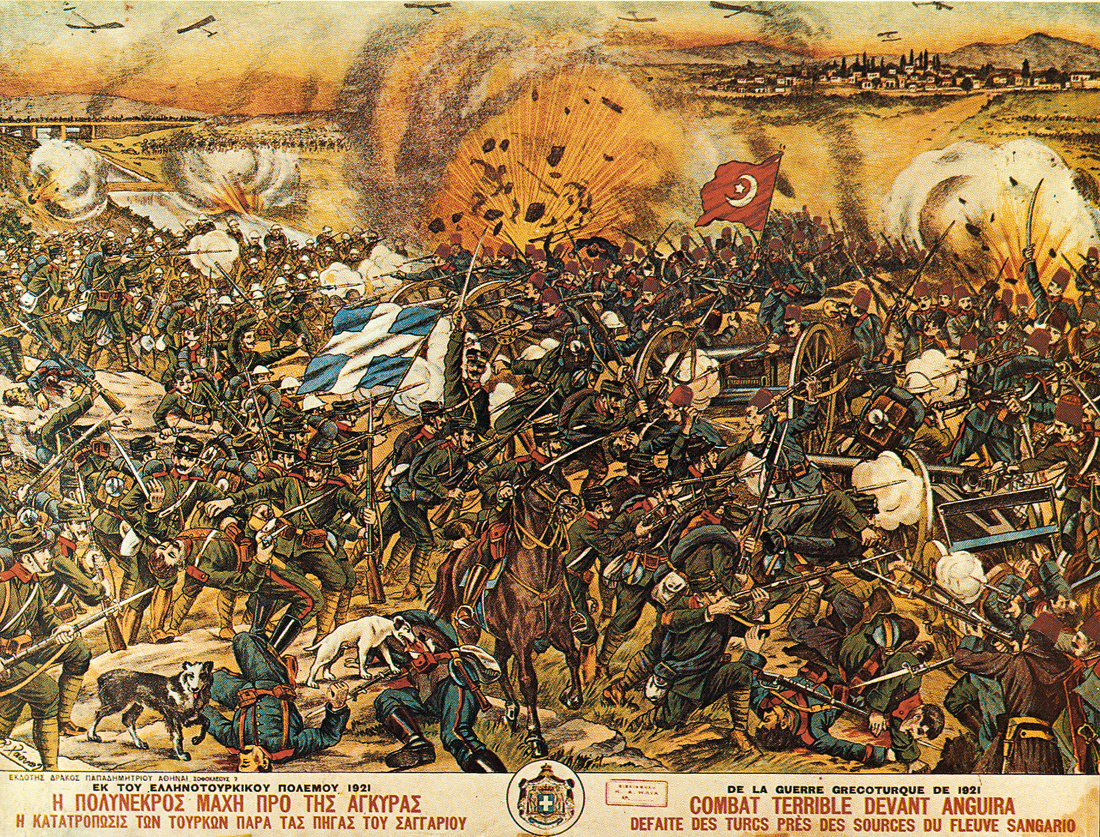 Greek lithograph depicting the Battle of Sangarios River (Sakarya) during the Greco-Turkish War of 1919-1922, a part of the Turkish War of Independence.